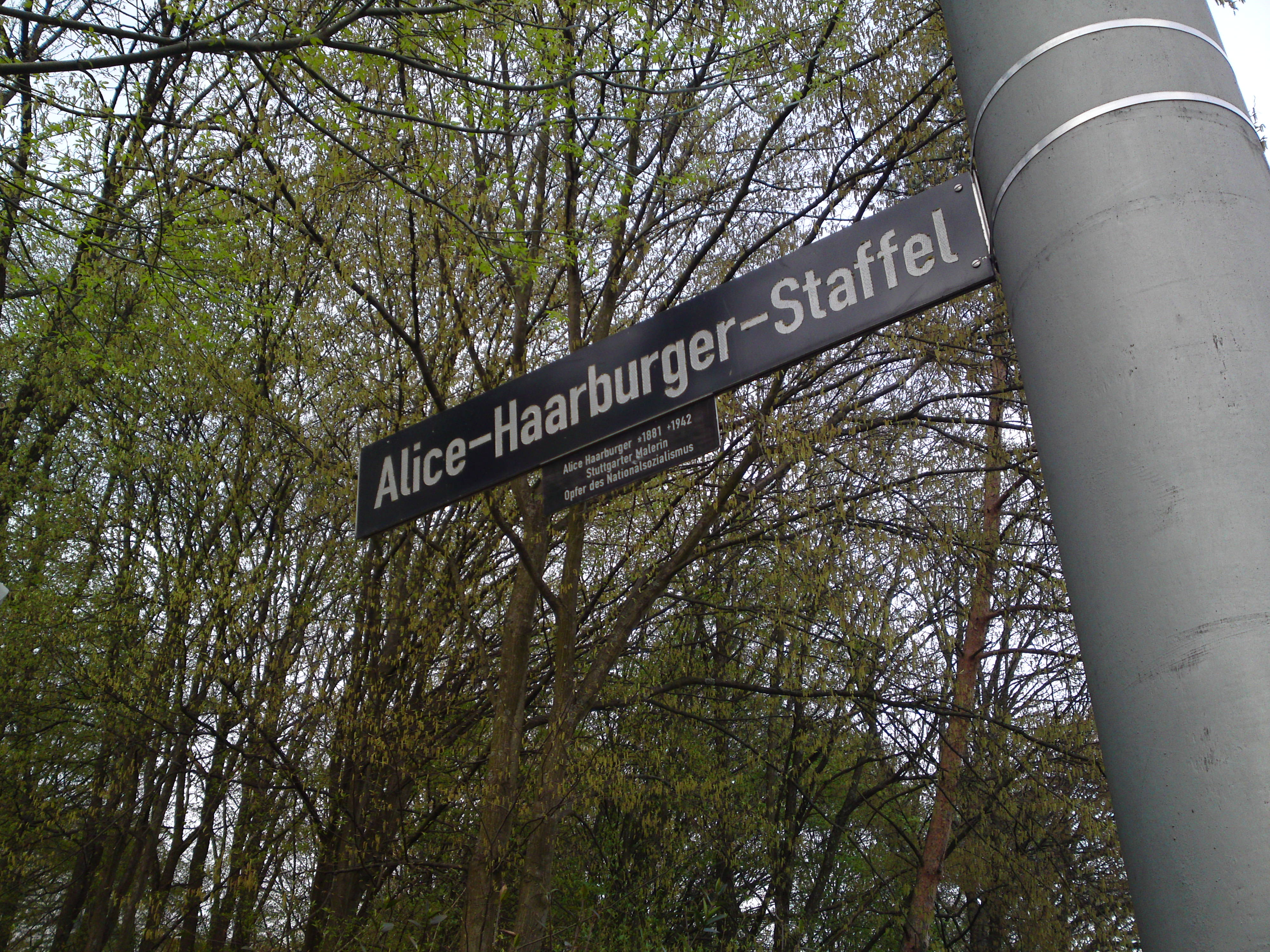 Alice-Haarburger-Staffel in Stuttgart.